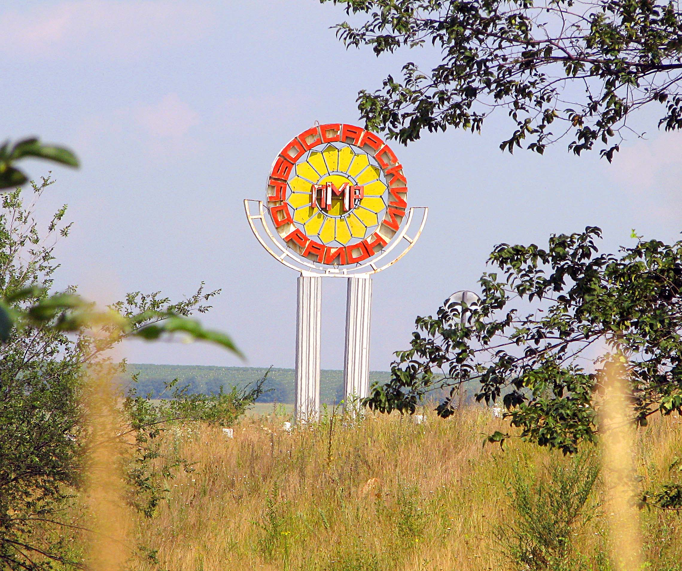 Дубоссарский район